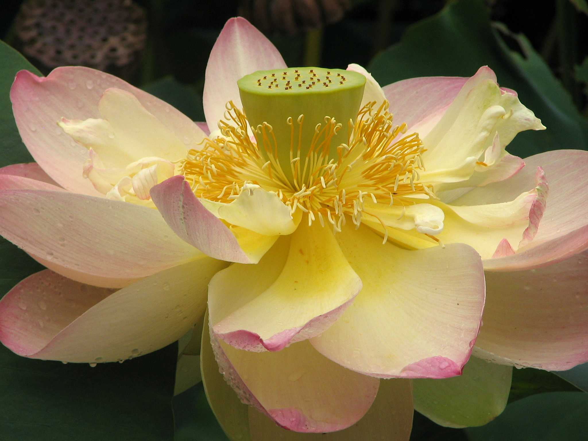 Picture of a Lotus (Nelumbo en 'Mrs. Perry D. Slocum') a cross between Nelumbo lutea and Nelumbo nucifera 'Rosea Plena'. Photo taken at the Chanticleer Garden where it was identified.